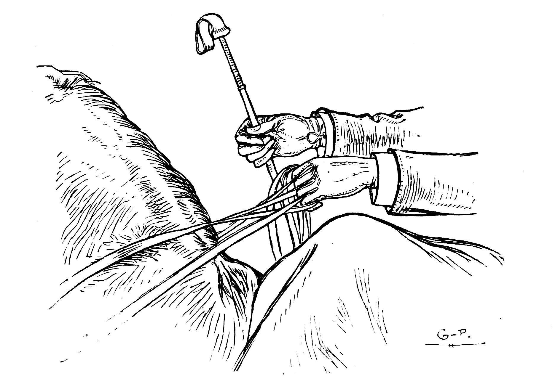 Image from book Horsemanship for Women by Theodore Hoe Mead